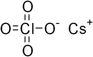 chemical structure of cesium perchlorate